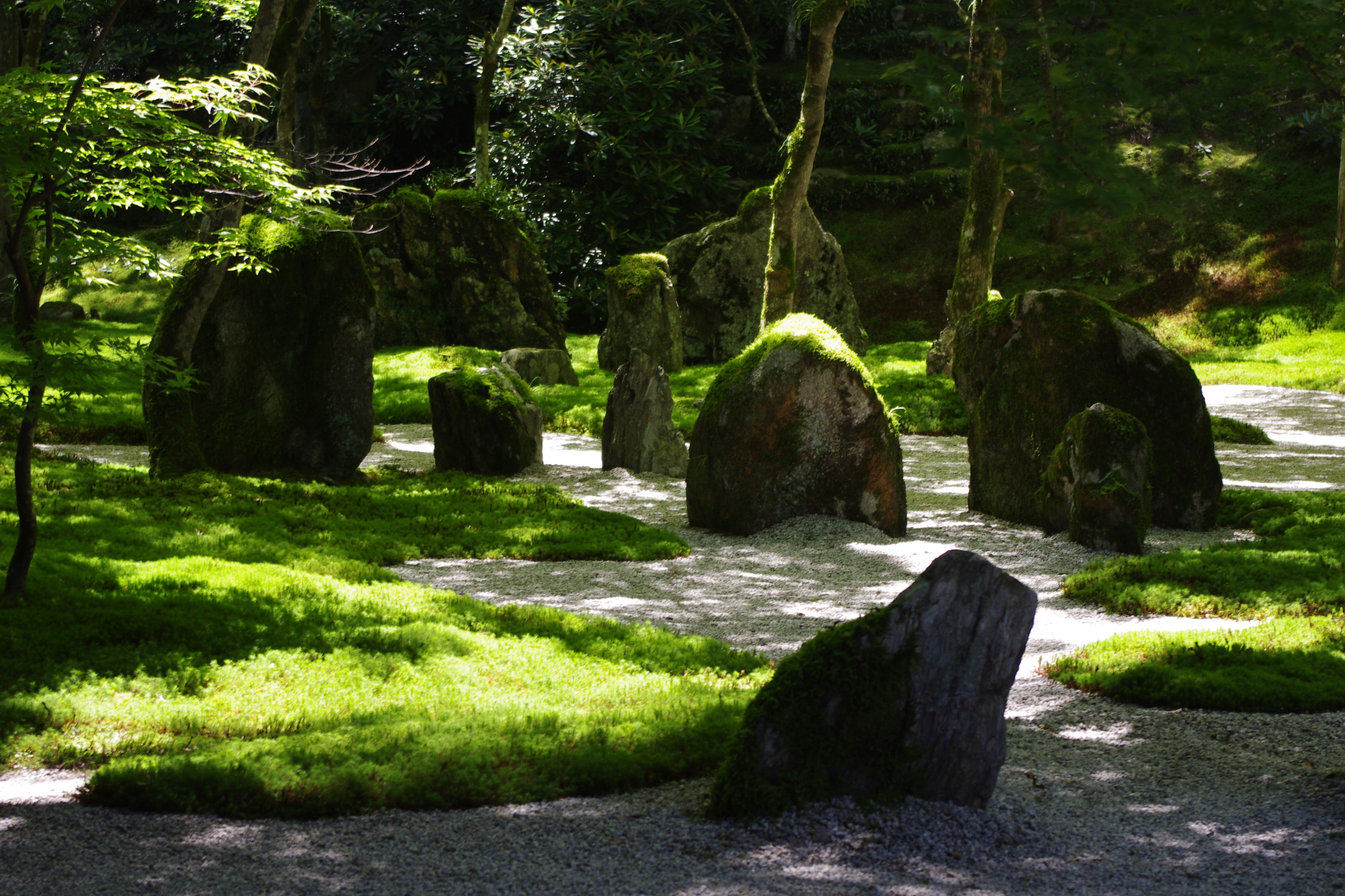 Stone garden of Komyozenji Temple in Dazaifu